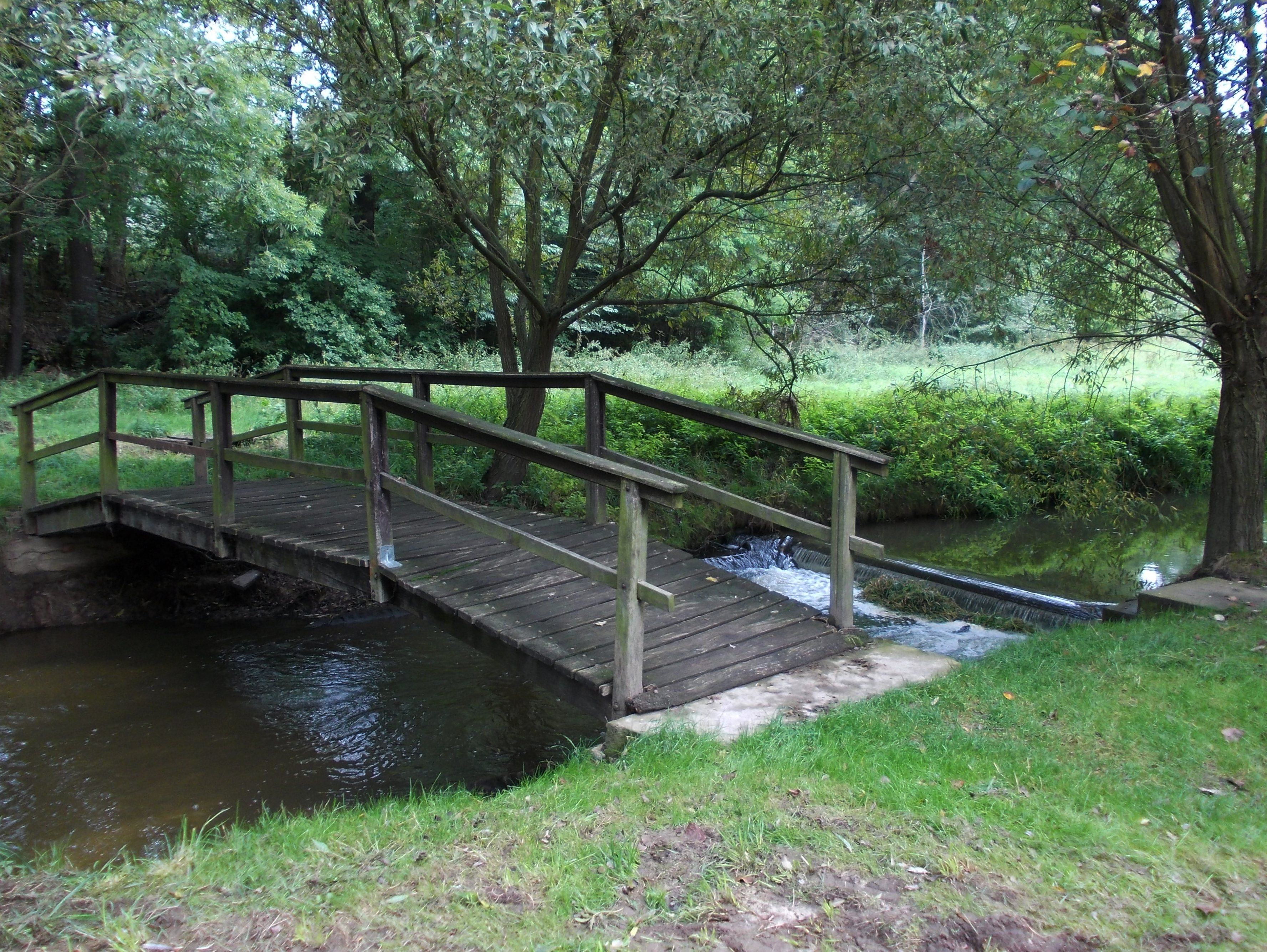 Footbridge over the Lossa river near Lossa Castle (Thallwitz, Leipzig district, Saxony)